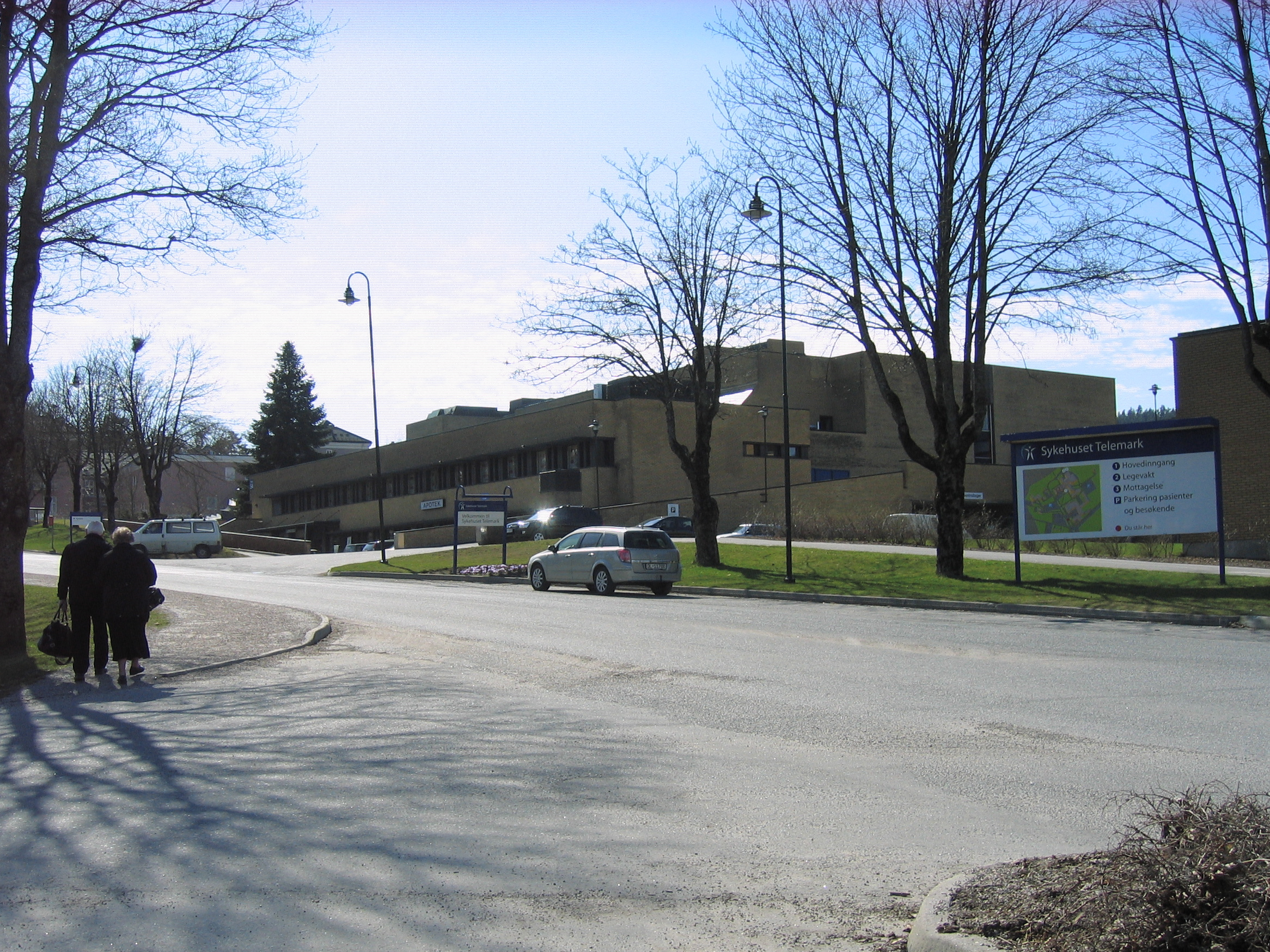 Hospital in Skien, Norway. Road leading up to the main entrance.